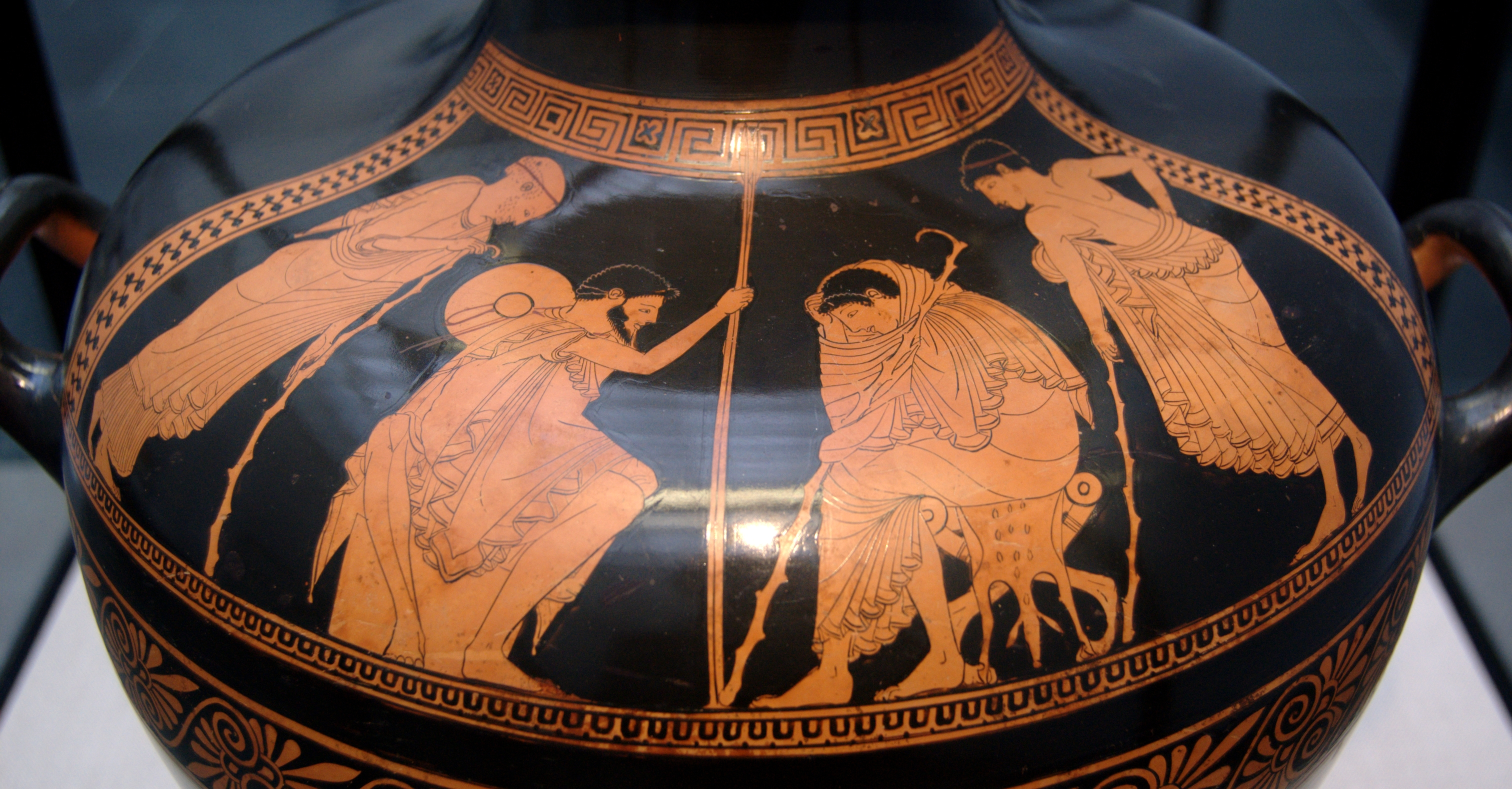 The embassy to Achilles (book 9 of the Iliad): Phoenix and Odysseus in front of Achilles. Attic red-figure hydria.